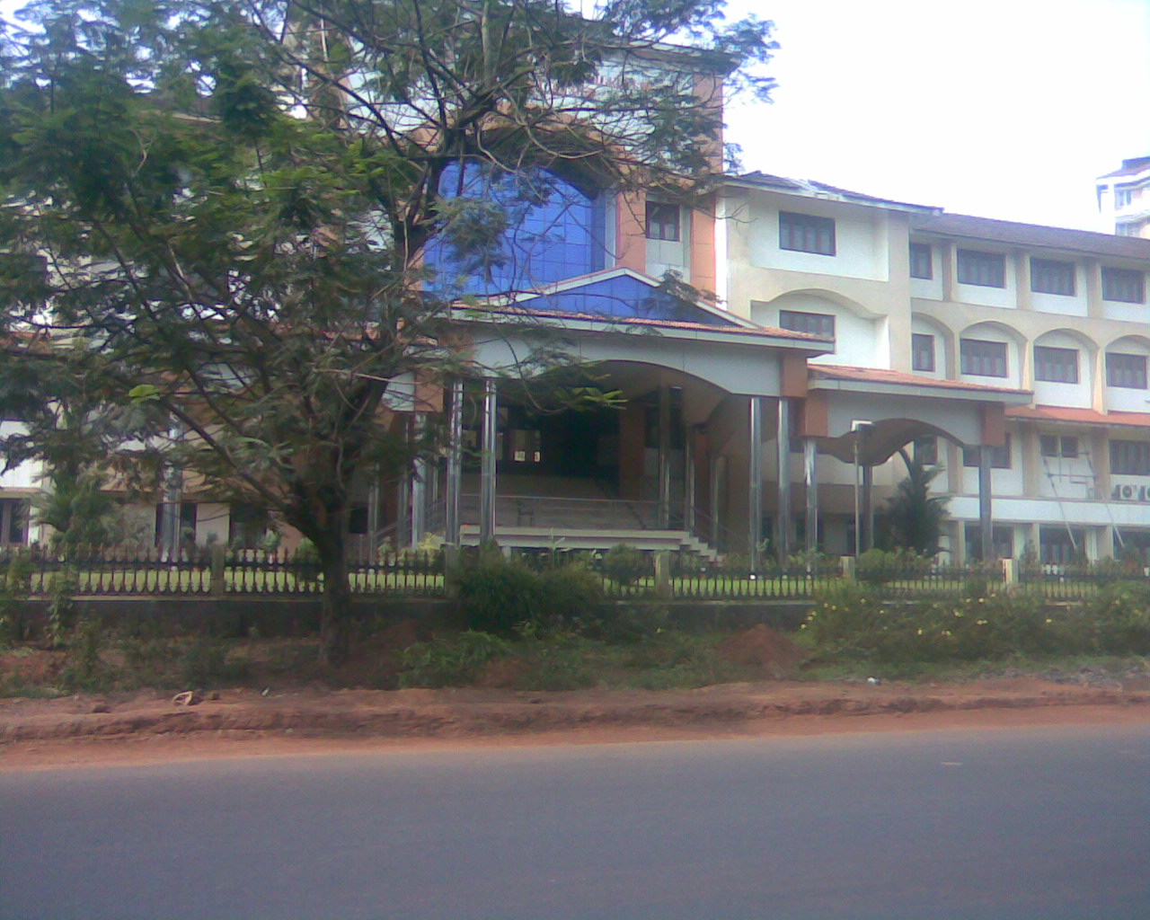 This media file is uploaded with Malayalam loves Wikimedia event - 2.